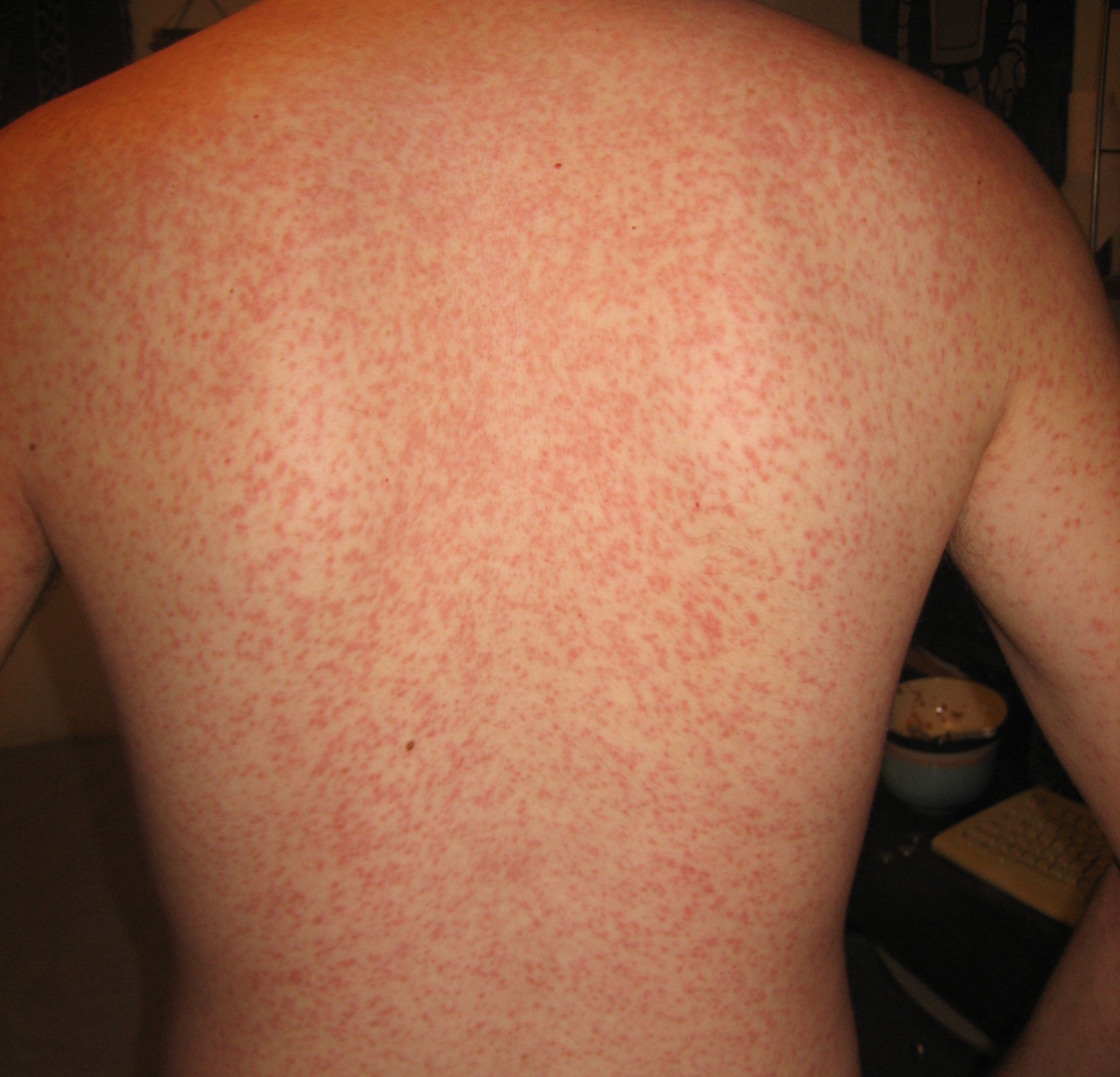 Infectious Mononucleosis and Ampicillin cross-reaction rash